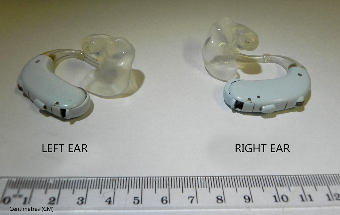 A pair of BTE Siemens CIELO 2 SP belonging to a 30 year old hearing impaired Australian man. A plastic ruler photographed for size. The colour of the aids is light blue but can be any colour. The moulds are soft and moulded to fit the ears of the wearer.